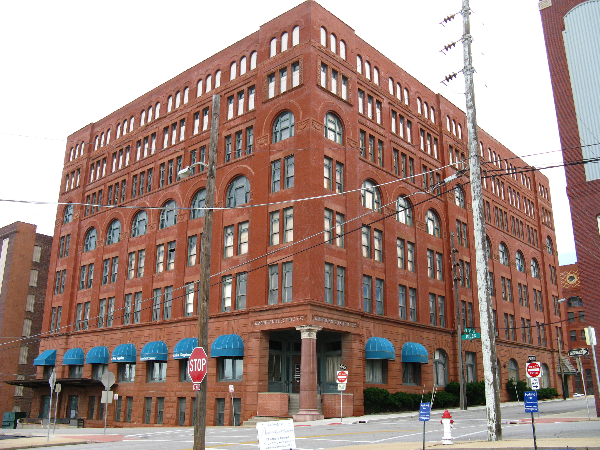 The John D. Richardson Bldg in St. at 300 N. 3rd Street in downtown Joseph, MO. The foremost portion of the building in the picture was built in 1892 for the Richardson, Roberts, Byrne & Company Wholesale dry goods house. St. Joseph architects Eckel & Van Brunt designed the building. It is now part of the American Electric Co. complex.